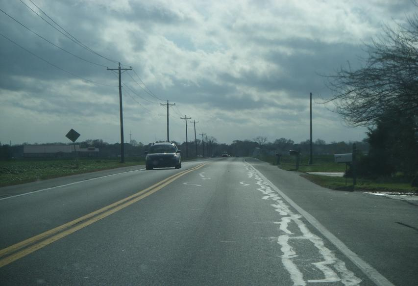 Southbound Delaware Route 15 (Wyoming Mill Road) between the intersection with Hazlettville Road in Dover, Delaware and Wyoming, Delaware.